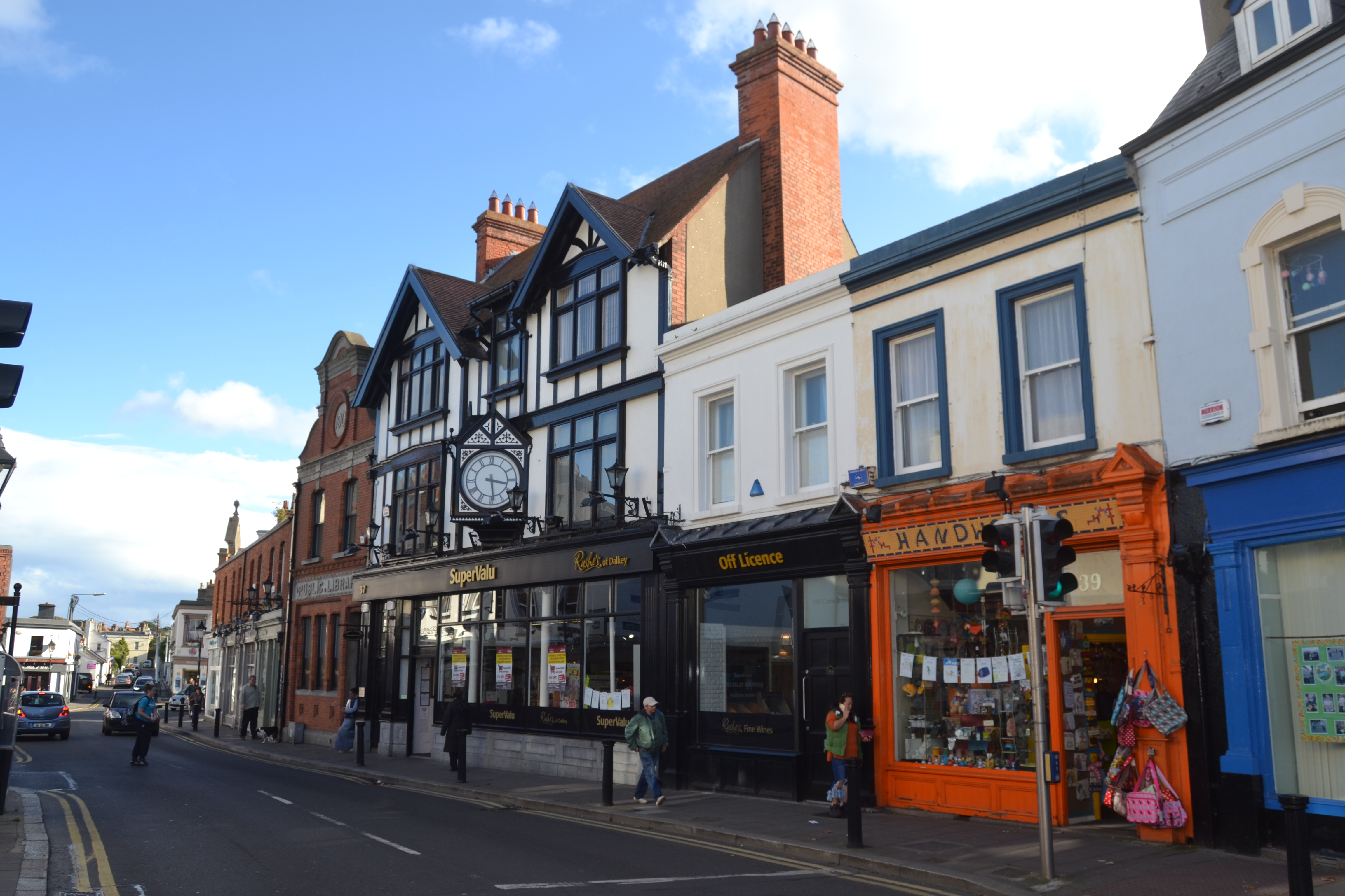 Dalkey, Ireland